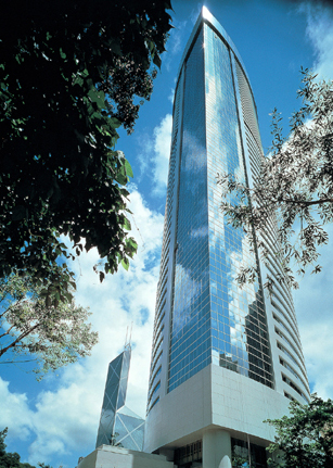 Island Shangri-La, Hong-Kong - Tower